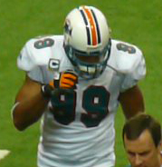 If used somewhere other than Wikipedia, Nelson, by name.